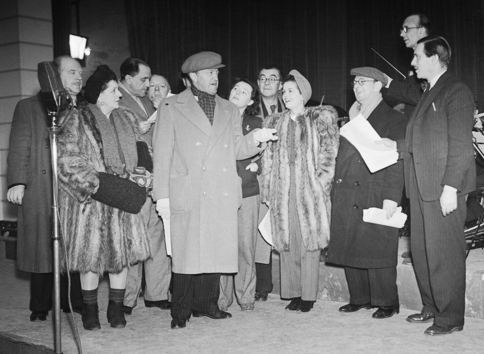 The British comedian Tommy Handley rehearses with actors from his ITMA show and the Royal Marines band during a visit to the Home Fleet at Scapa Flow, January 1944. Wartime Entertainers: The British comedian Tommy Handley rehearses with actors from his ITMA show and the Royal Marines band during a visit to the Home Fleet at Scapa Flow. ITMA (full title 'It's That Man Again') was one of the most popular radio shows of the war. Its topical comedy was based upon a series of humorous encounters between well known wartime stereotypes.